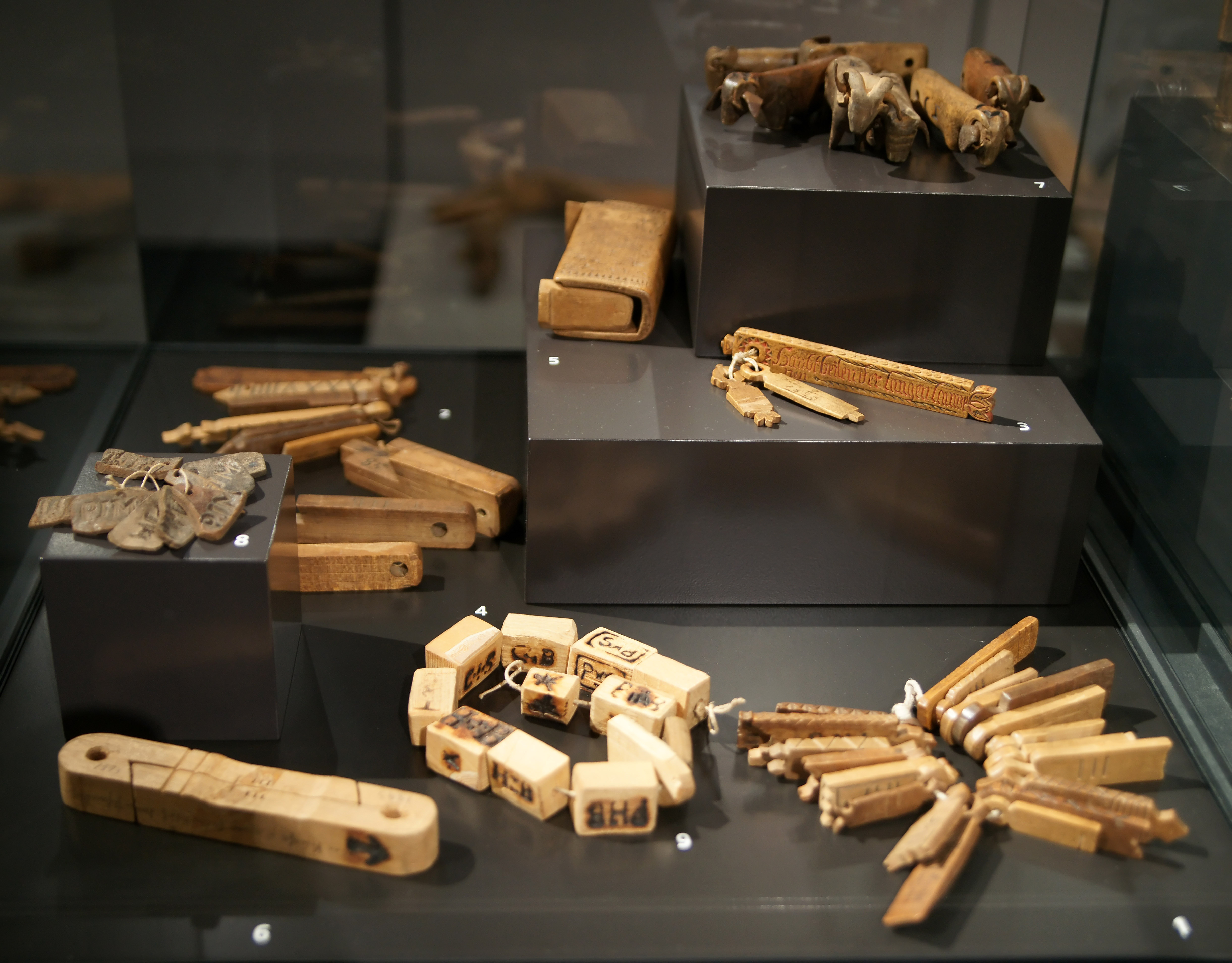 Tally sticks from the Swiss Alps: Alpbeilen from Alp Blattiberg (Lauenen BE), 1786/1815. Front: name of entitled person, reverse: notches for cow rights. For this alp, there are 87 cow rights divided among 23 owners. Alpbeilen from Alp Hinterschneit (Saanen BE), 1778 Alpbeilen from Alp Langenlauenen (Lauenen BE), 1754/1792/1823 Krapfentesseln and reconstructed matching tally ("Beitessel"). The notches indicate cow rights and both pieces (one held by the farmer, the other by the alp corporation) have to correspond for the tally to be valid. Box for beitesseln, 1766 Double tessel from Alp Blümatt (Turtmann VS), 1893 Schaftesseln from Visperterminen VS, before 1913. The marking on the leather ears correspond to marking on the real sheep's ears. Leather schafbeilen from Lourtier (Bagnes VS), before 1916, identity marks for sheep. Schafbeilen from Grindelwald BE, before 1916